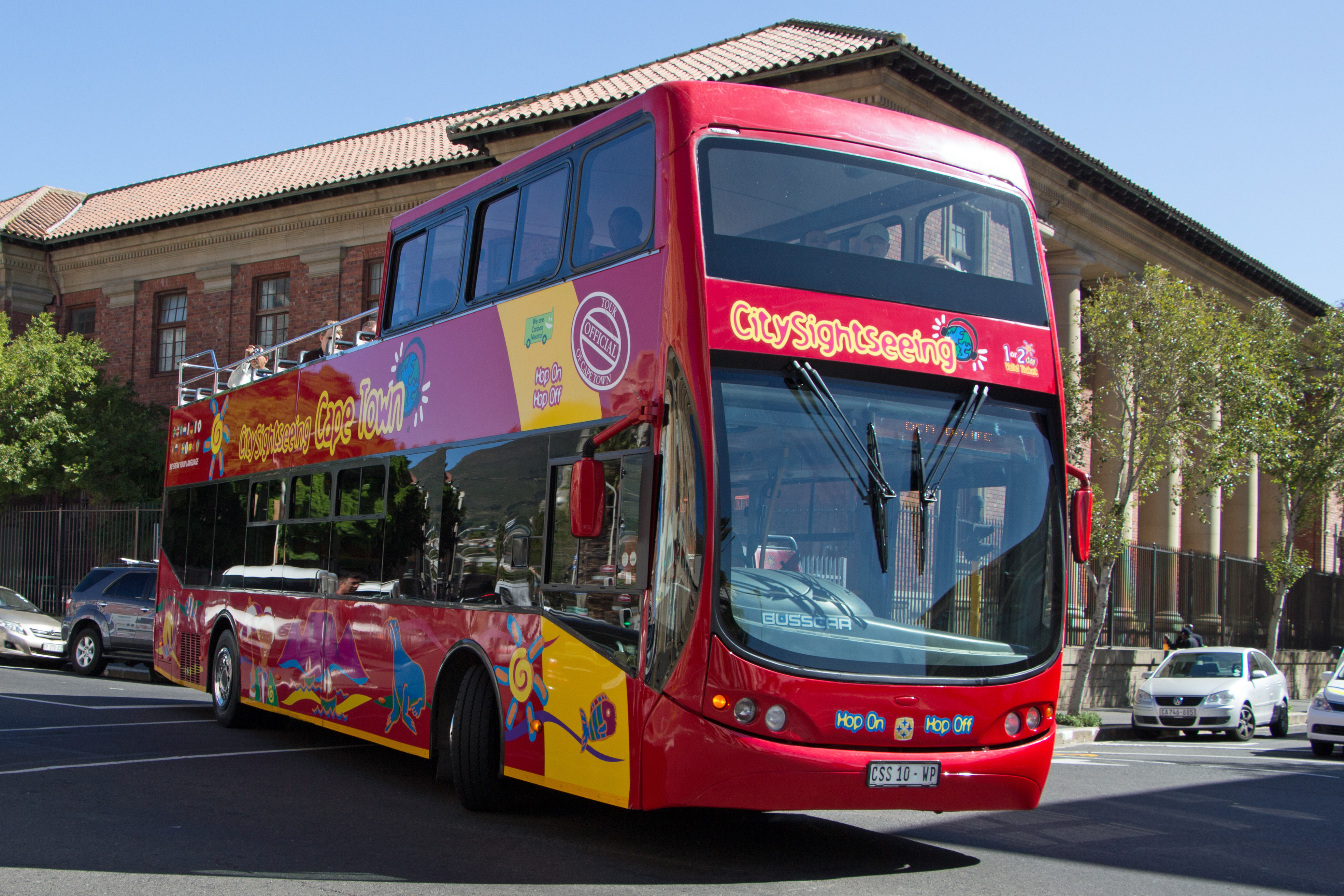 Red City Tour Sightseeing bus in Cape Town, South Africa